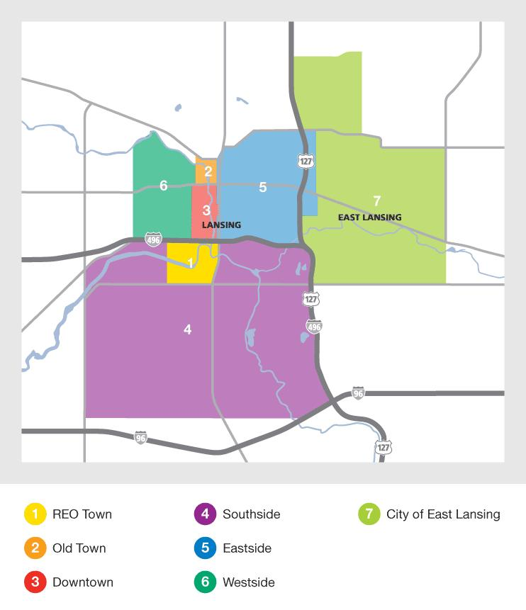 Picture of Old Town